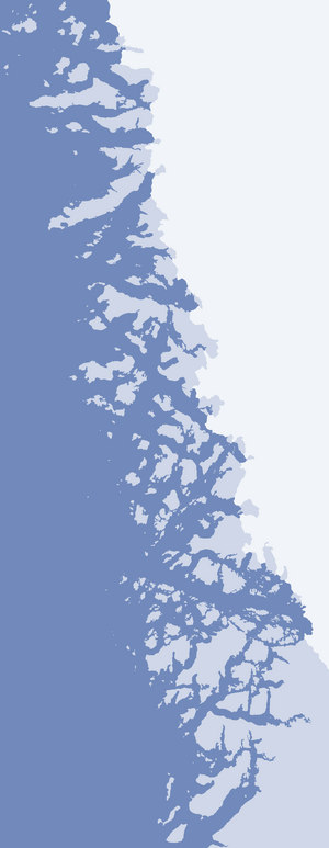 Location map of the Upernavik Archipelago. The geographical limits of the map: N: 74.8430556 S: 72.0930556 W: -57.8569445 E: -54.0869445 or (72°5'35"N − 74°50'35"N) (54°5'13"W − 57°51'25"W)